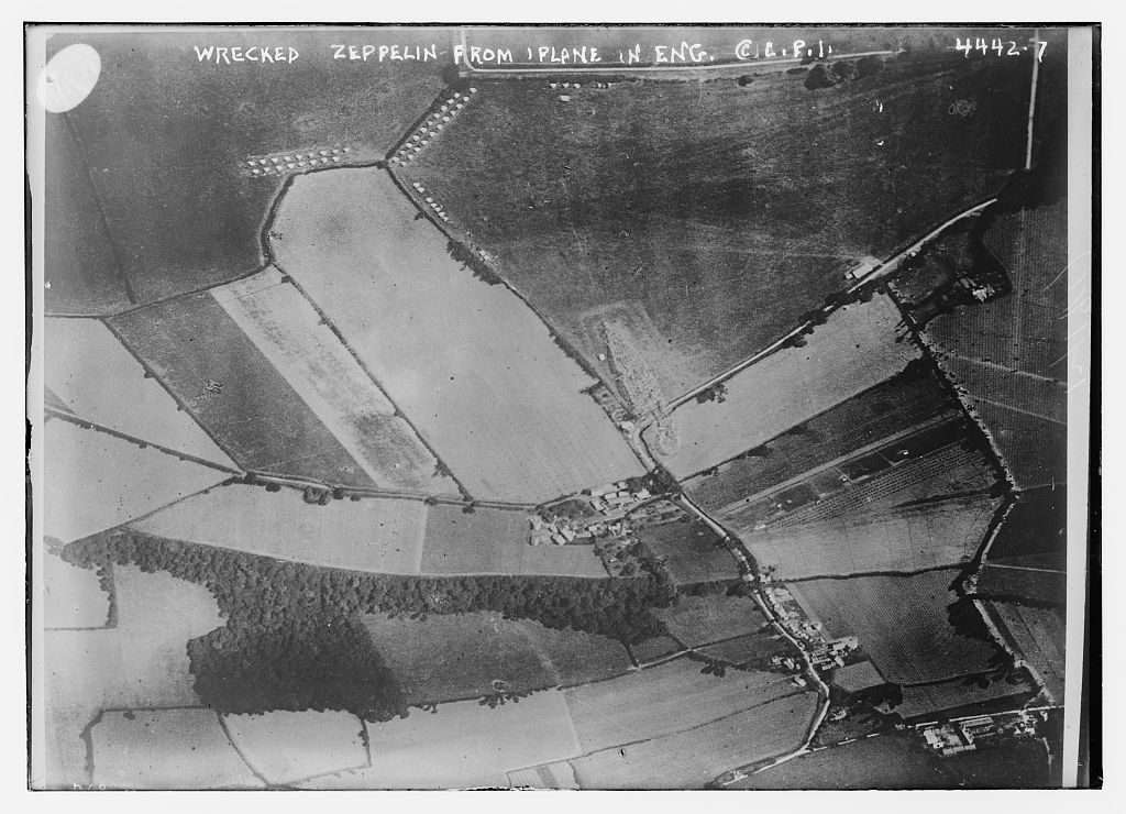 L33 landed in Little Wigborough, Essex, near New Hall Farm on September 24, 1916 and the crew set it afire